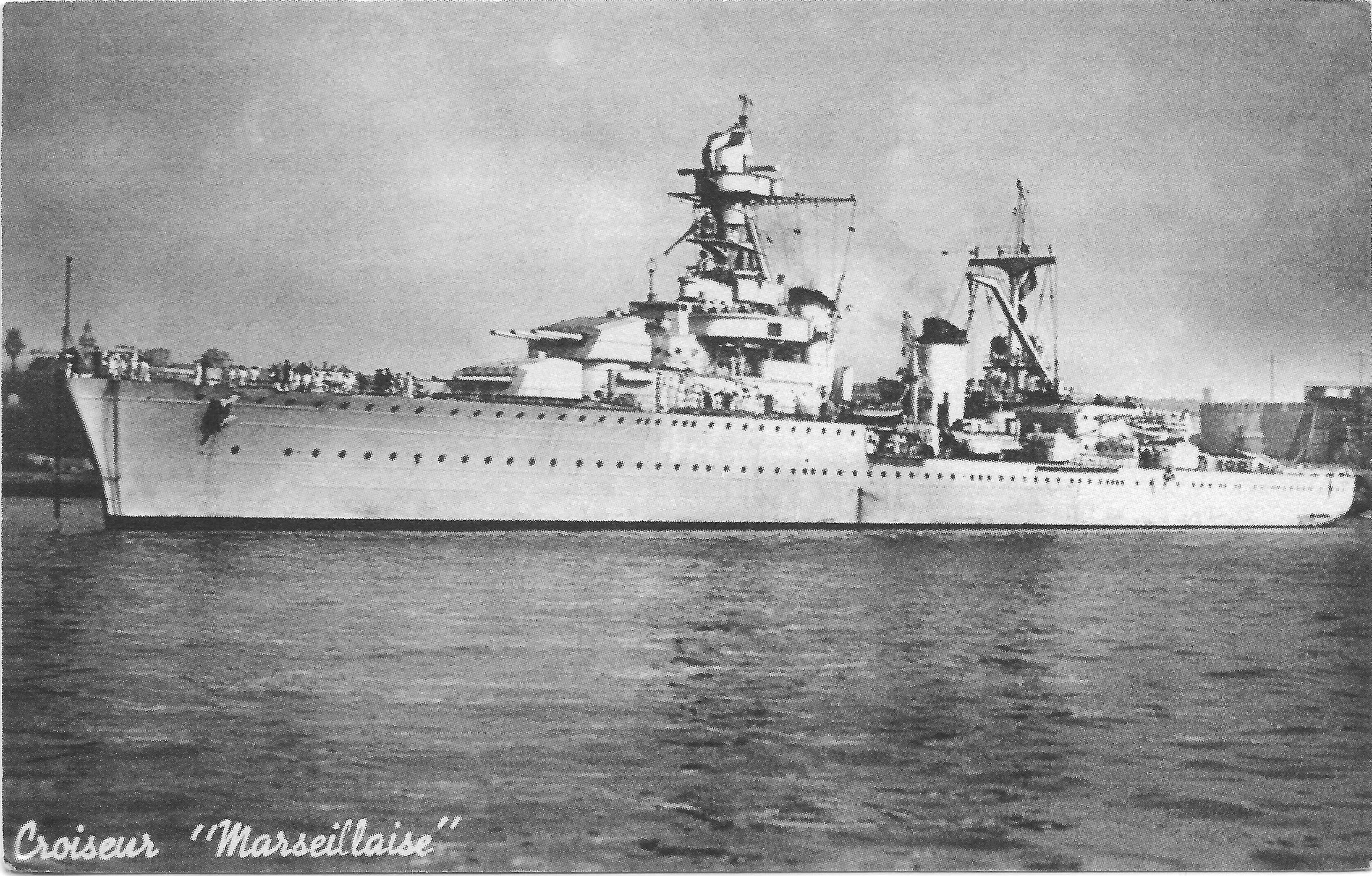 French cruiser Marseillais